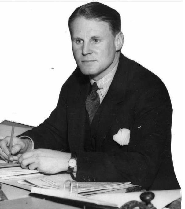 Norwegian lawyer and athlete Olaf Dahll (1889–1967), rower at Summer Olympics 1912.